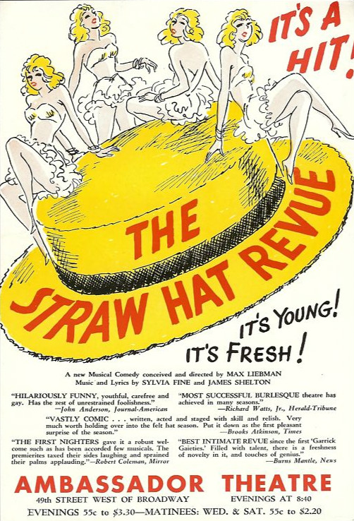 Promotional flyer for The Straw Hat Revue.